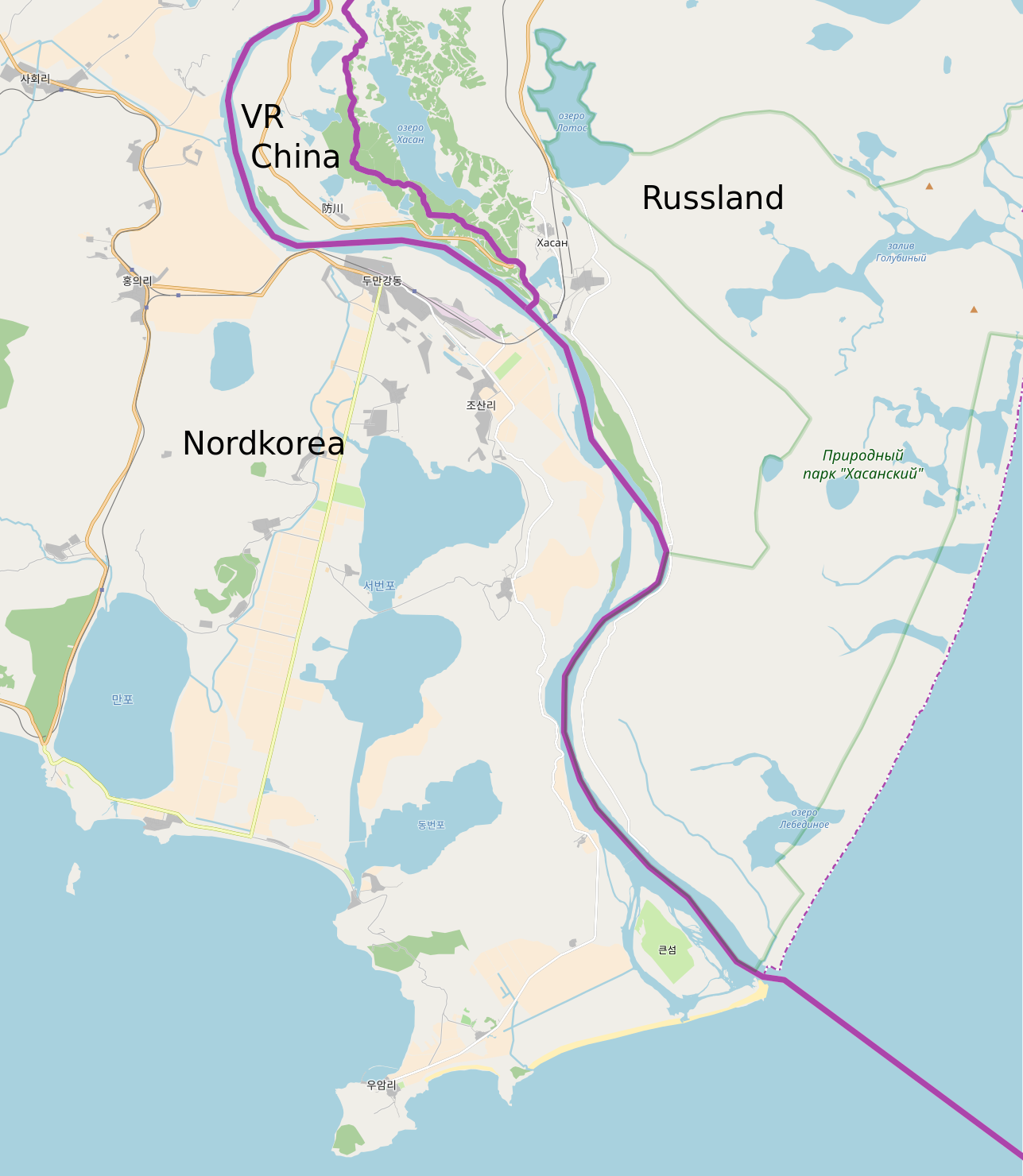 Karte der Grenze zwischen Nordkorea und Russland This map may be incomplete, and may contain errors. Don't rely solely on it for navigation.